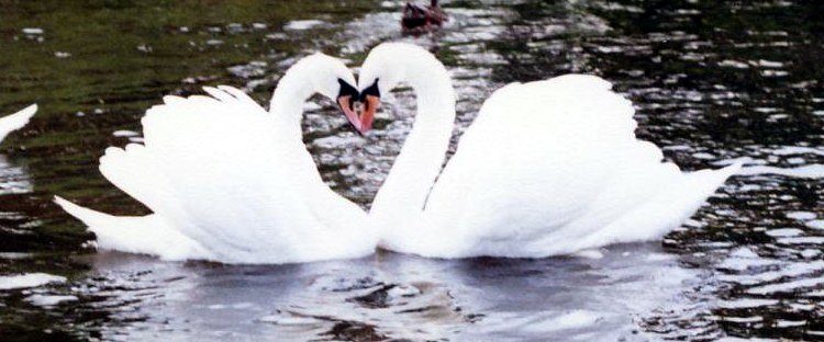 Two swans in love!